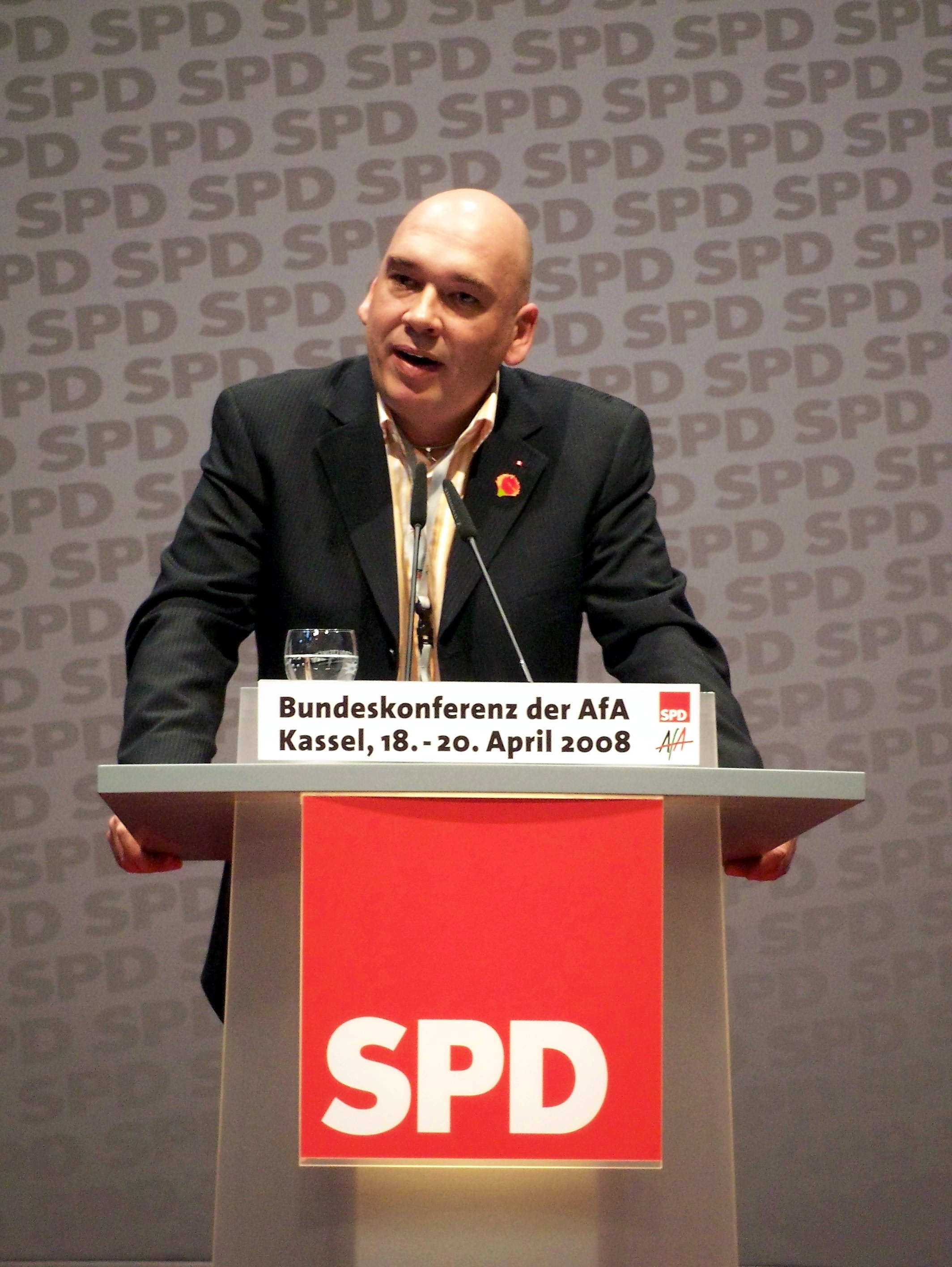 Frank Weber, German SPD politician